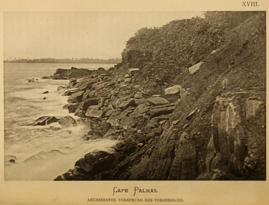 Vol.1 Photograph